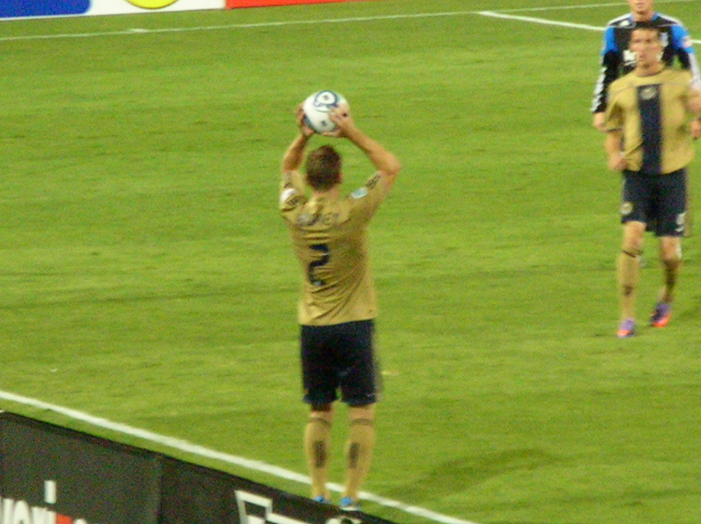 A match between the Philadelphia Union and the San Jose Earthquakes at Buck Shaw Stadium in Santa Clara. The Earthquakes won 1-0.